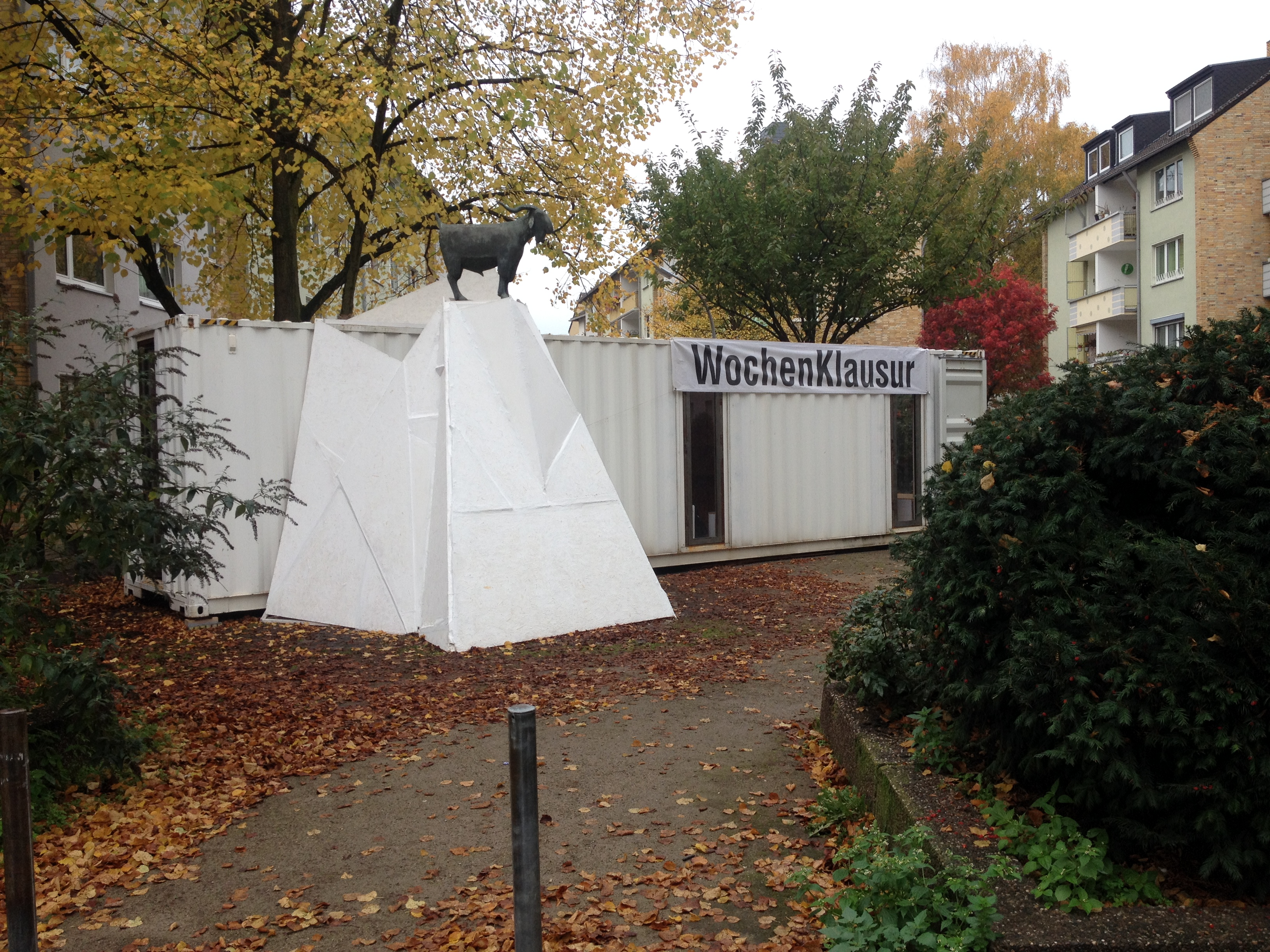 WochenKlausur, Deutz